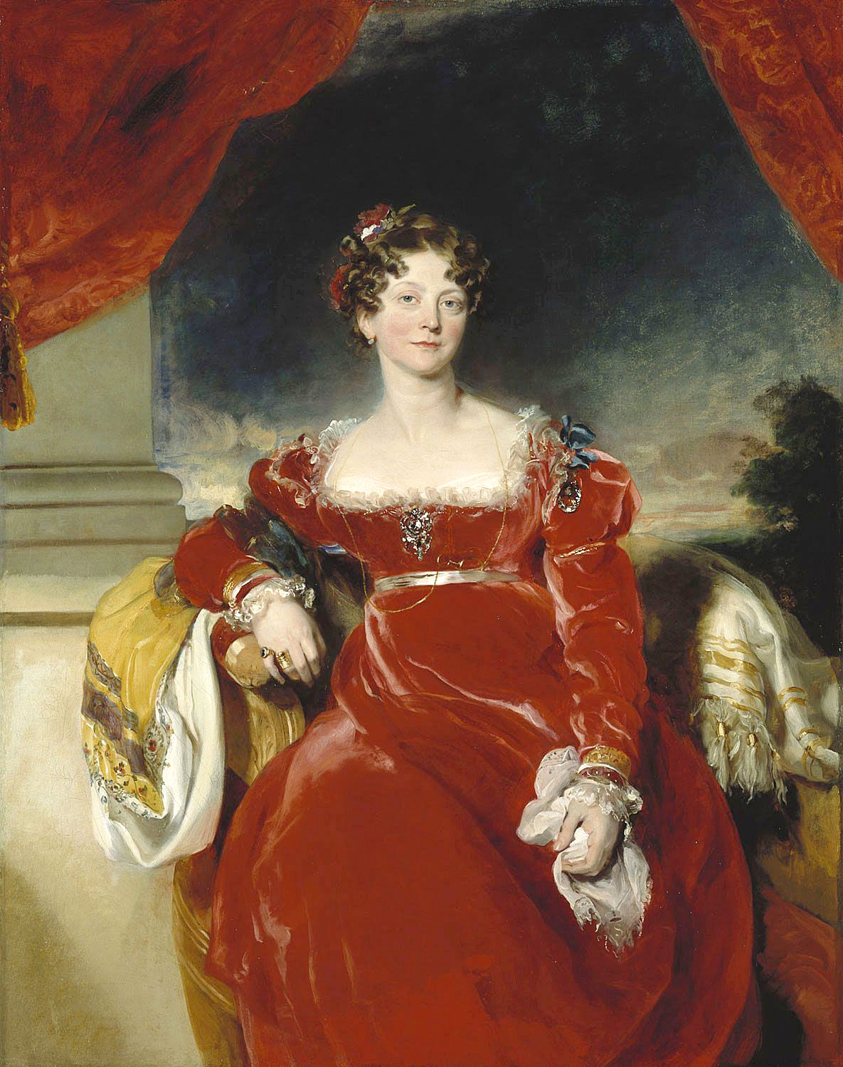 Portrait of Princess Sophia (1777-1848)